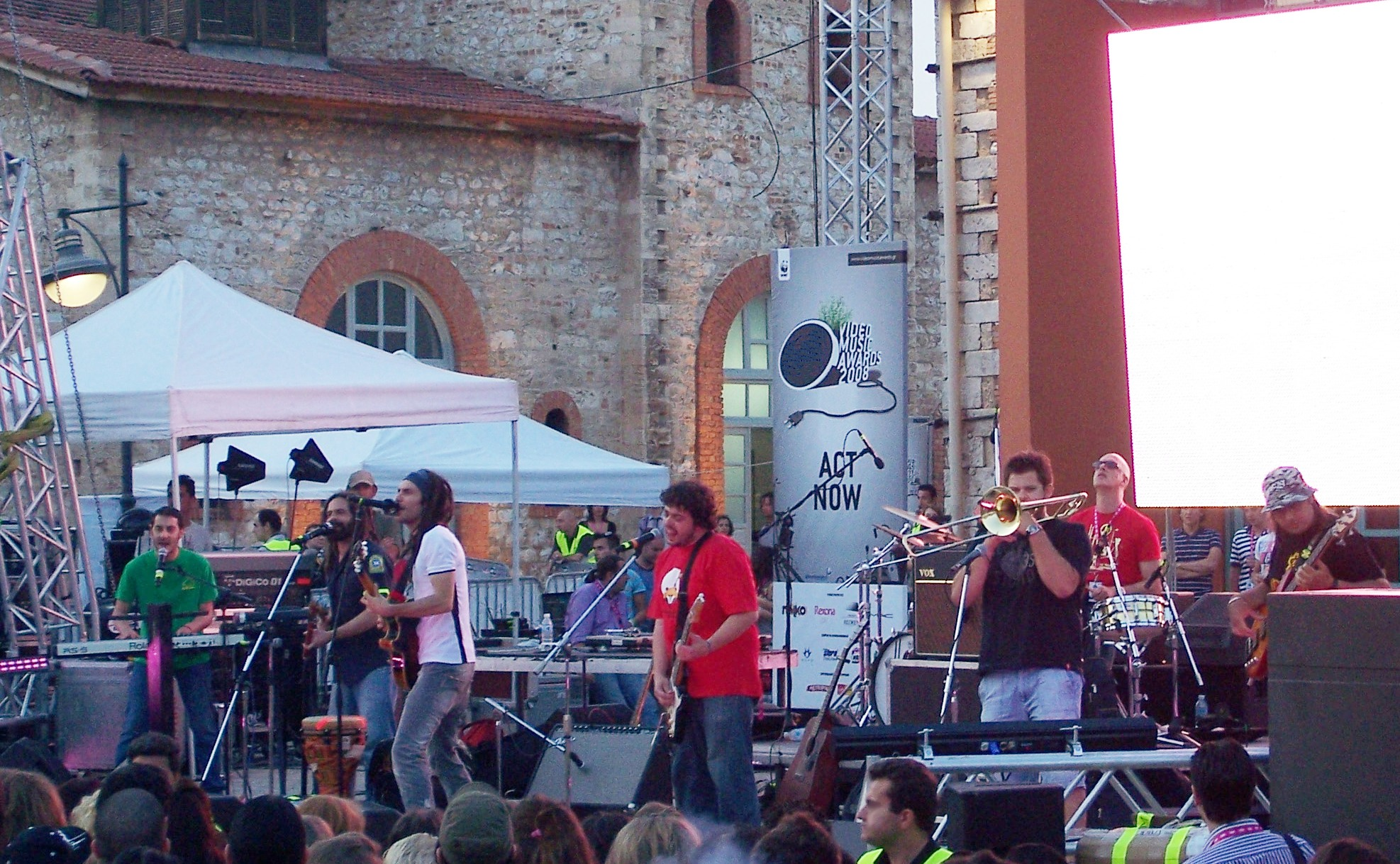 Greek ska band Locomondo performing live on World Environment Day at Technopolis (Gazi), Athens, Greece